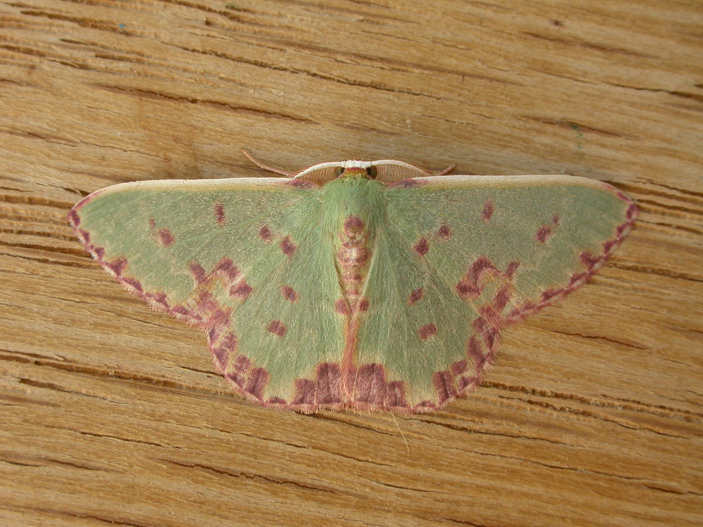 Prasinocyma rhodocosma (Meyrick, 1888), to MV light, Aranda, ACT, 16/17 April 2010